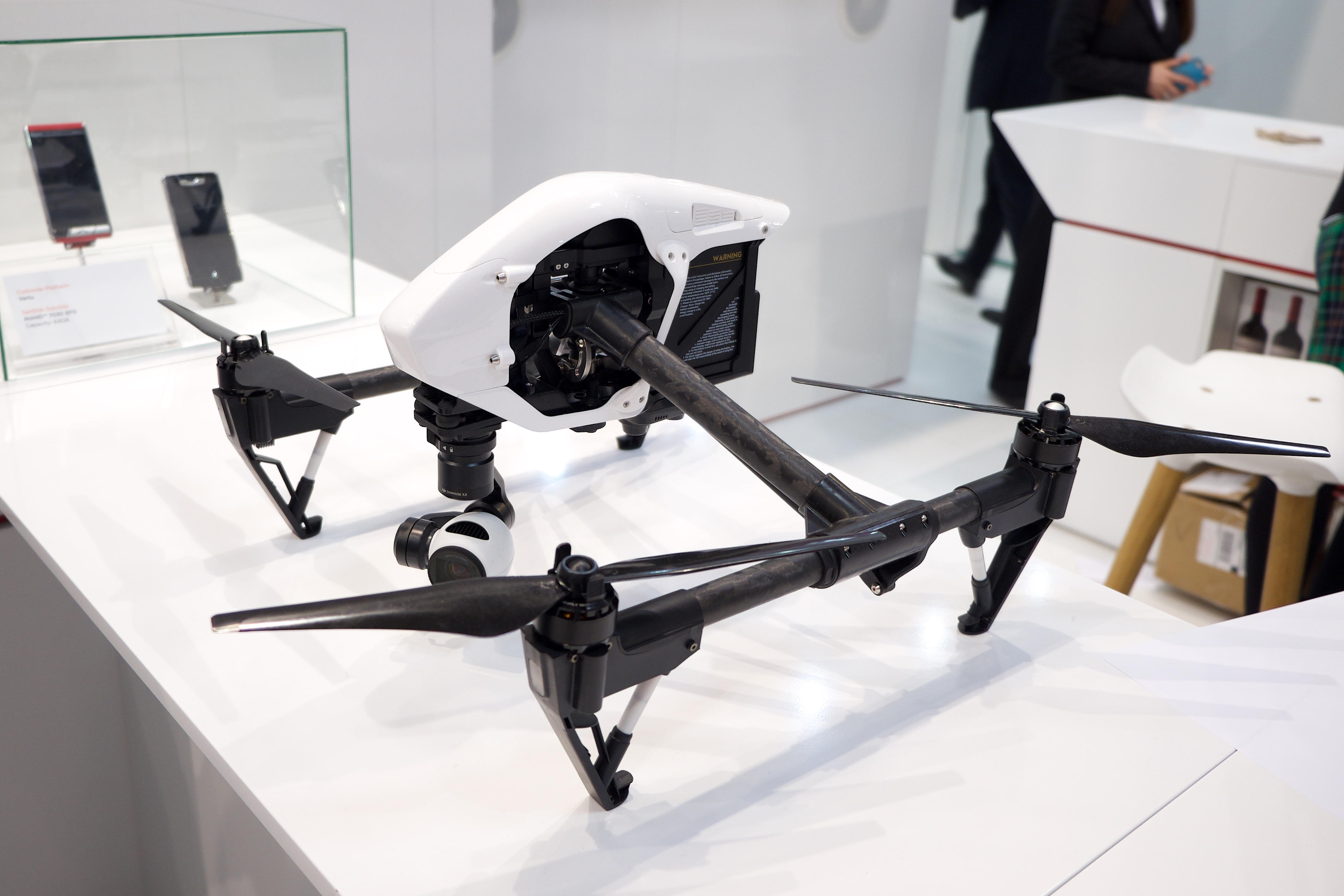 DJI Inspire at Mobile World Congress 2015 Barcelona